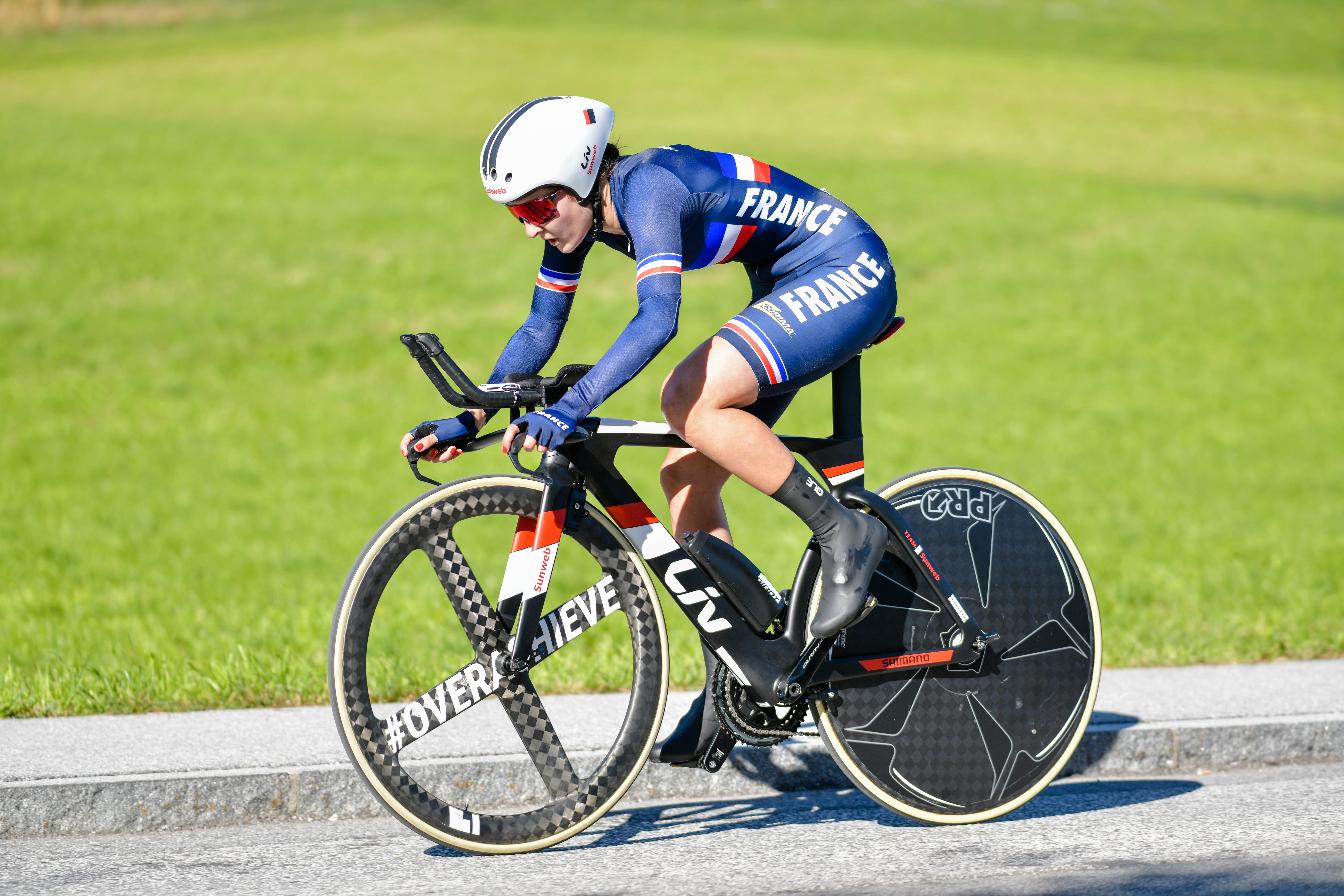 2018 UCI Road World Championships Innsbruck/Tirol Women Elite Individual Time Trial. Picture shows: Juliette Labous of France